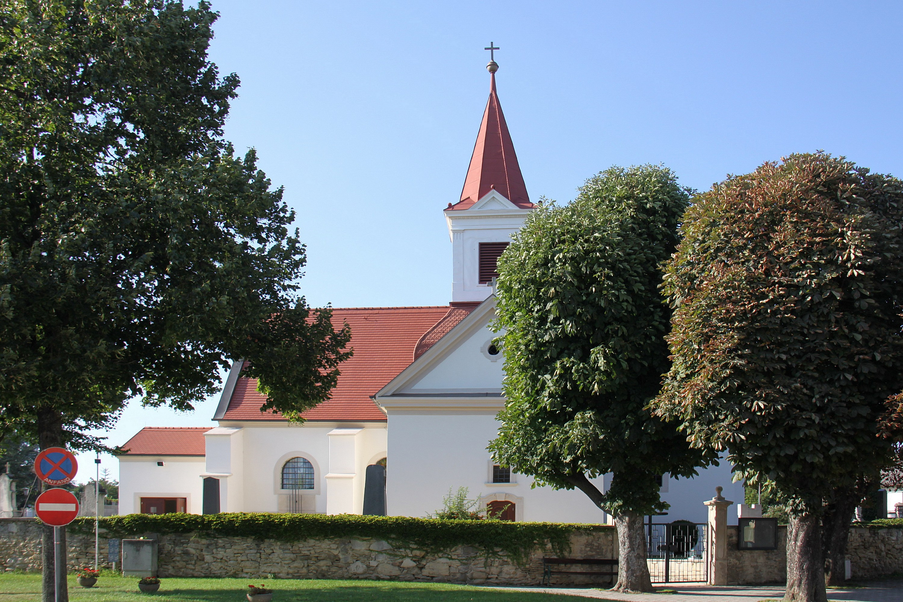 Parish church John the Baptist - Zagersdorf Object location47° 45′ 53.99″ N, 16° 30′ 44.64″ E